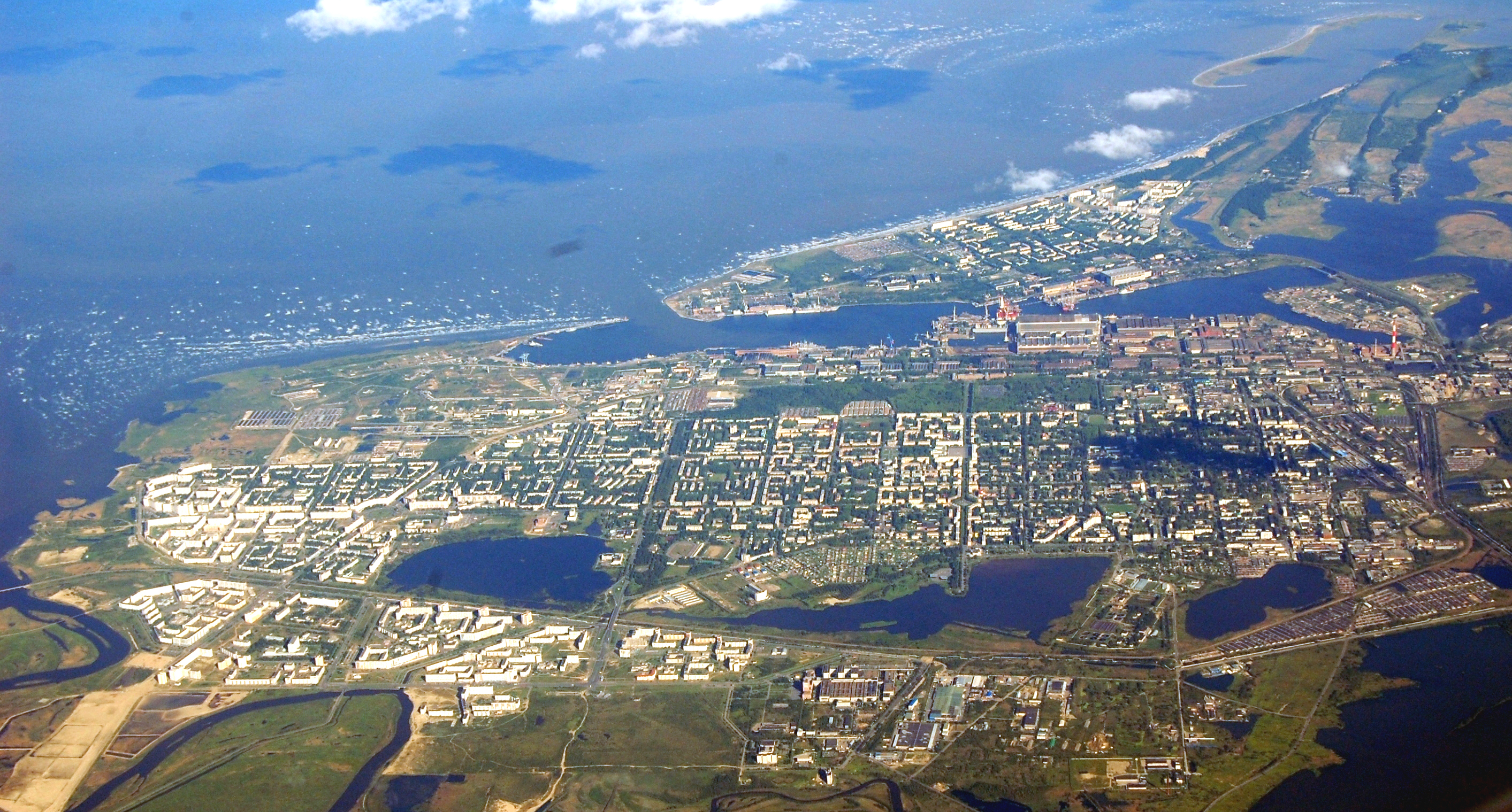 The view of Severodvinsk from about 6-7 km